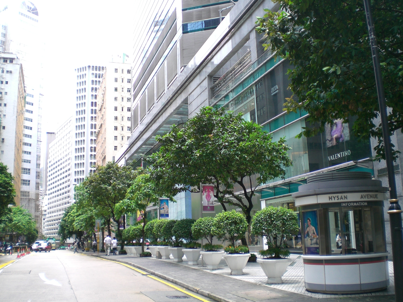 銅鑼灣, Causeway Bay Author= Kwanyatsw